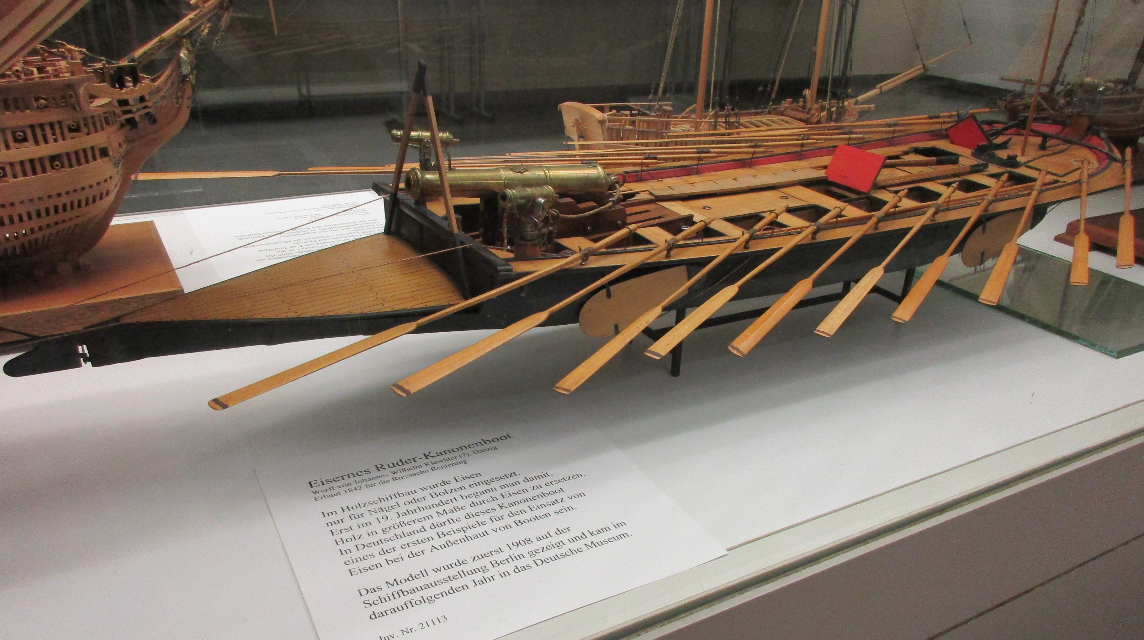 An ironclad oar-powered gunboat built in Danzig (Johannes Wilhelm Klawitter shipyard) in 1842 for the Russian Imperial Government. Armed with 4 smoothbore cannons. One of the first examples in Germany for ships built with a metal-skinned hull. Model in the Deutsches Museum (Munich).